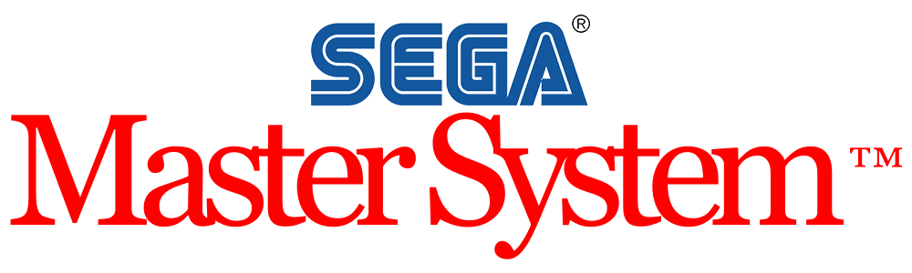 Sega Master System logo - This one's the real deal.